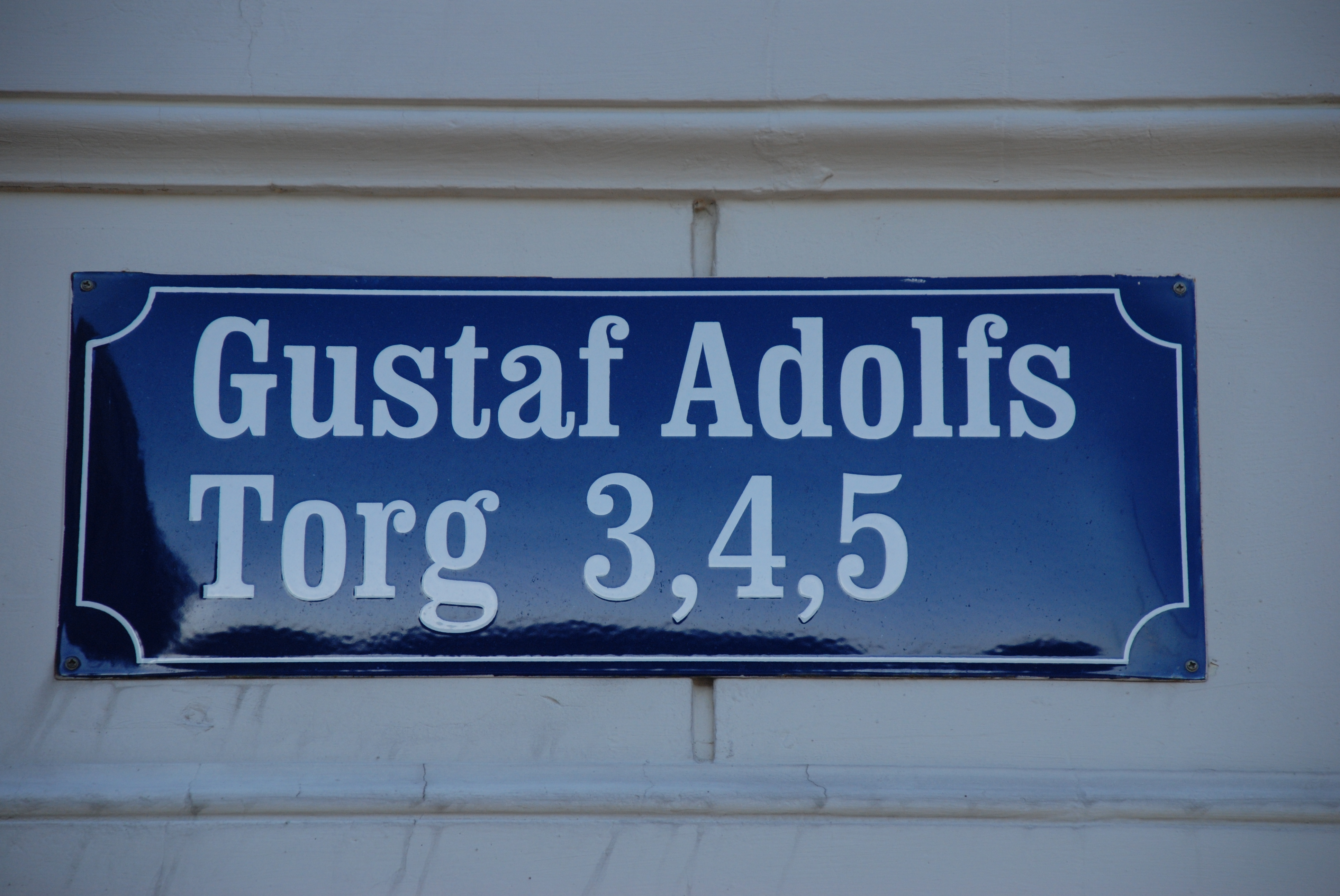 Street sign Gustaf Adolfs Torg in Göteborg.